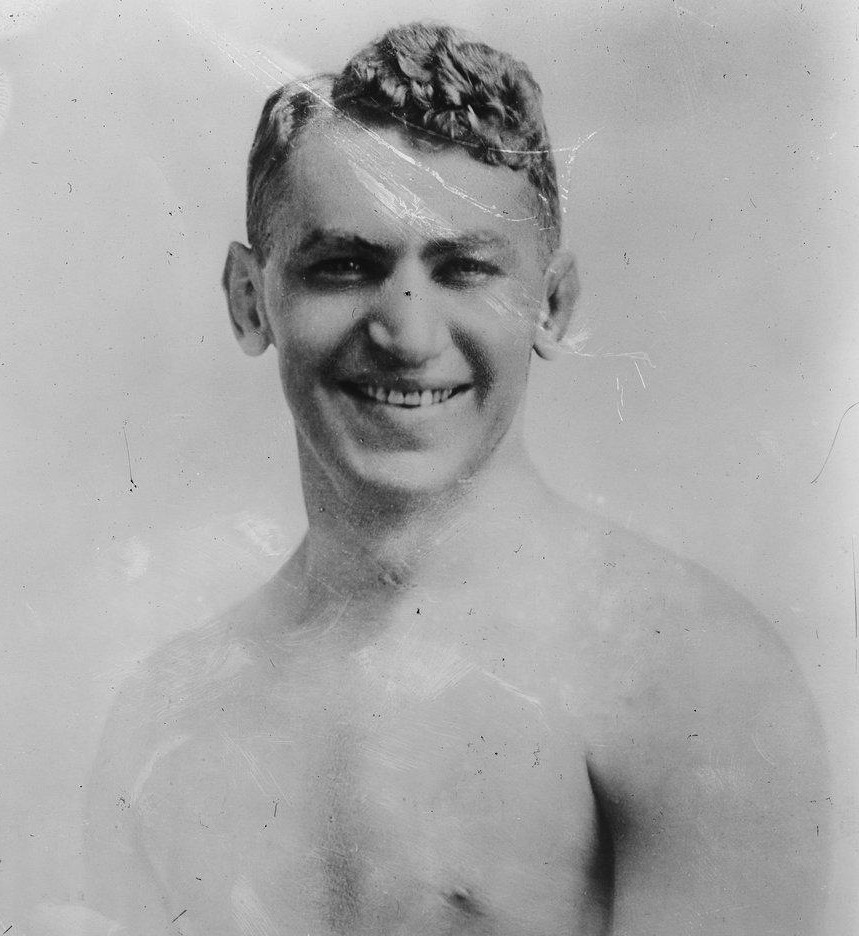 Portrait of American boxer Battling Levinsky : [press photograph]